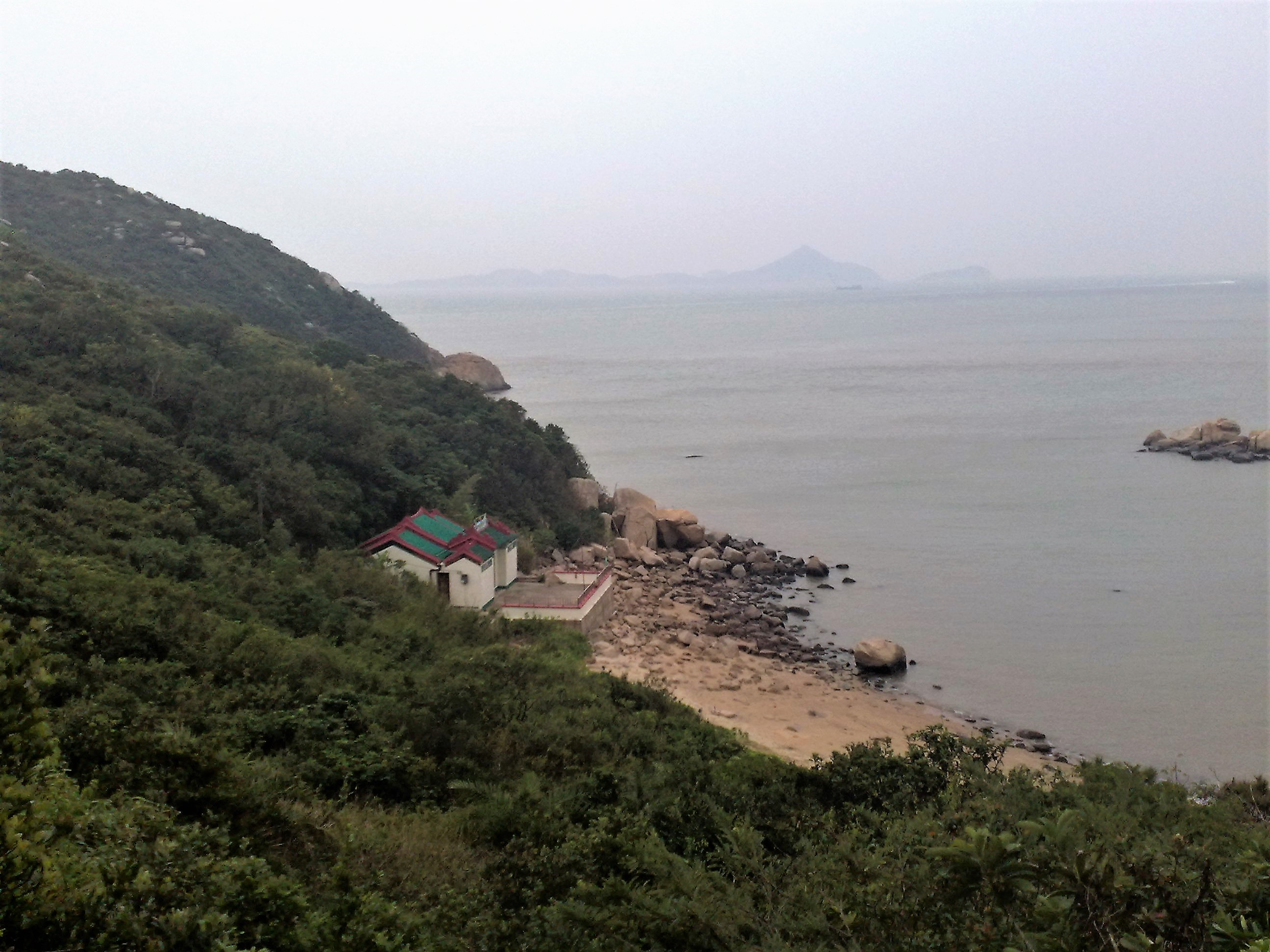 Tin Hau Temple, Fan Lau, Lantau Island, Hong Kong. Guishan Island of Zhuhai is visible in the distance